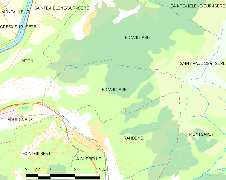 Map of French municipality